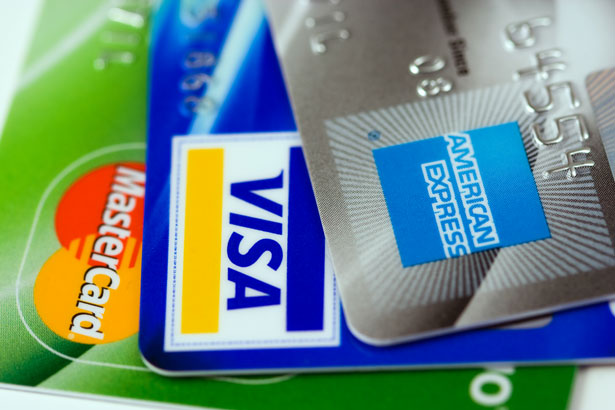 Three credit cards: Visa, Mastercard and American Express.